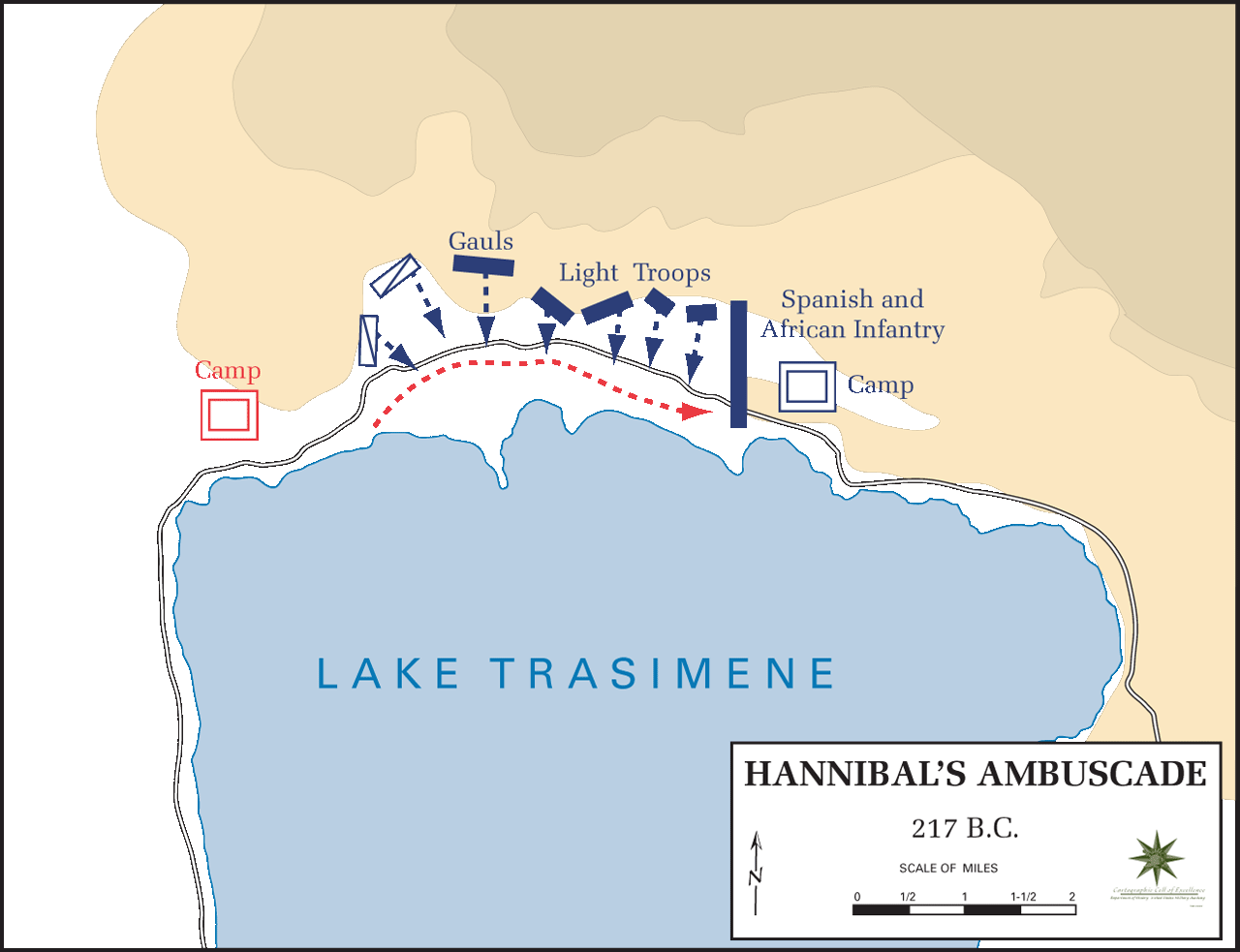 Battle of Lake Trasimene, Hannibal's ambuscade